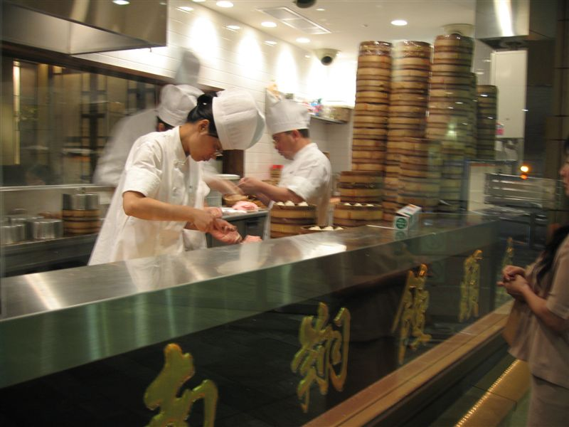 Nanxiang Steamed Buns Restaurant